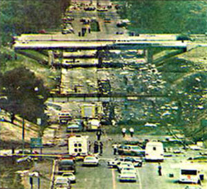 The crash site of Northwest Airlines Flight 255 on Middlebelt Road